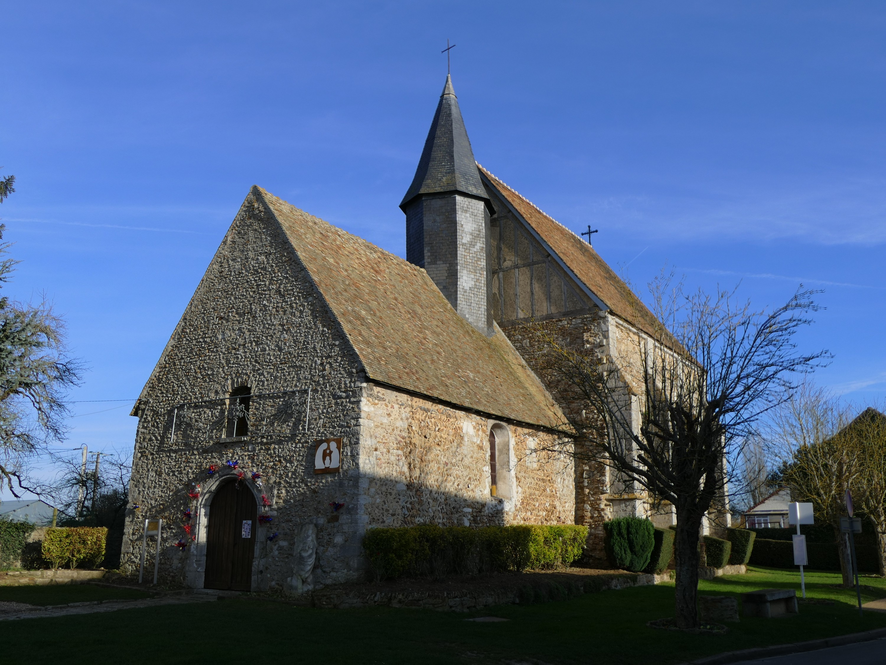 Saint-Christophe's church in Mondreville (Yvelines, Île-de-France, France).